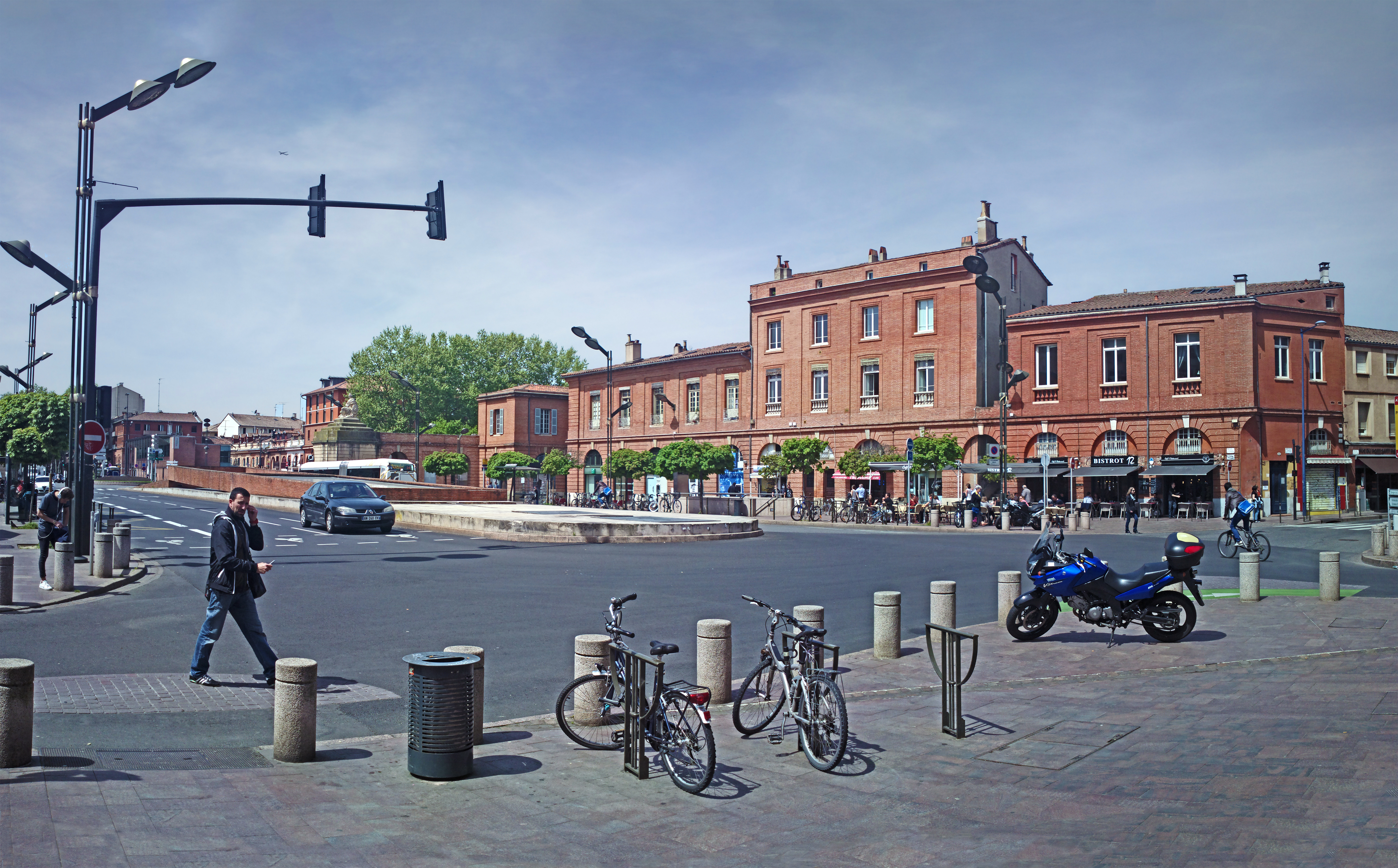 Place intérieure Saint-Cyprien in Toulouse. Plan by the architect Joseph-Marie de Saget.